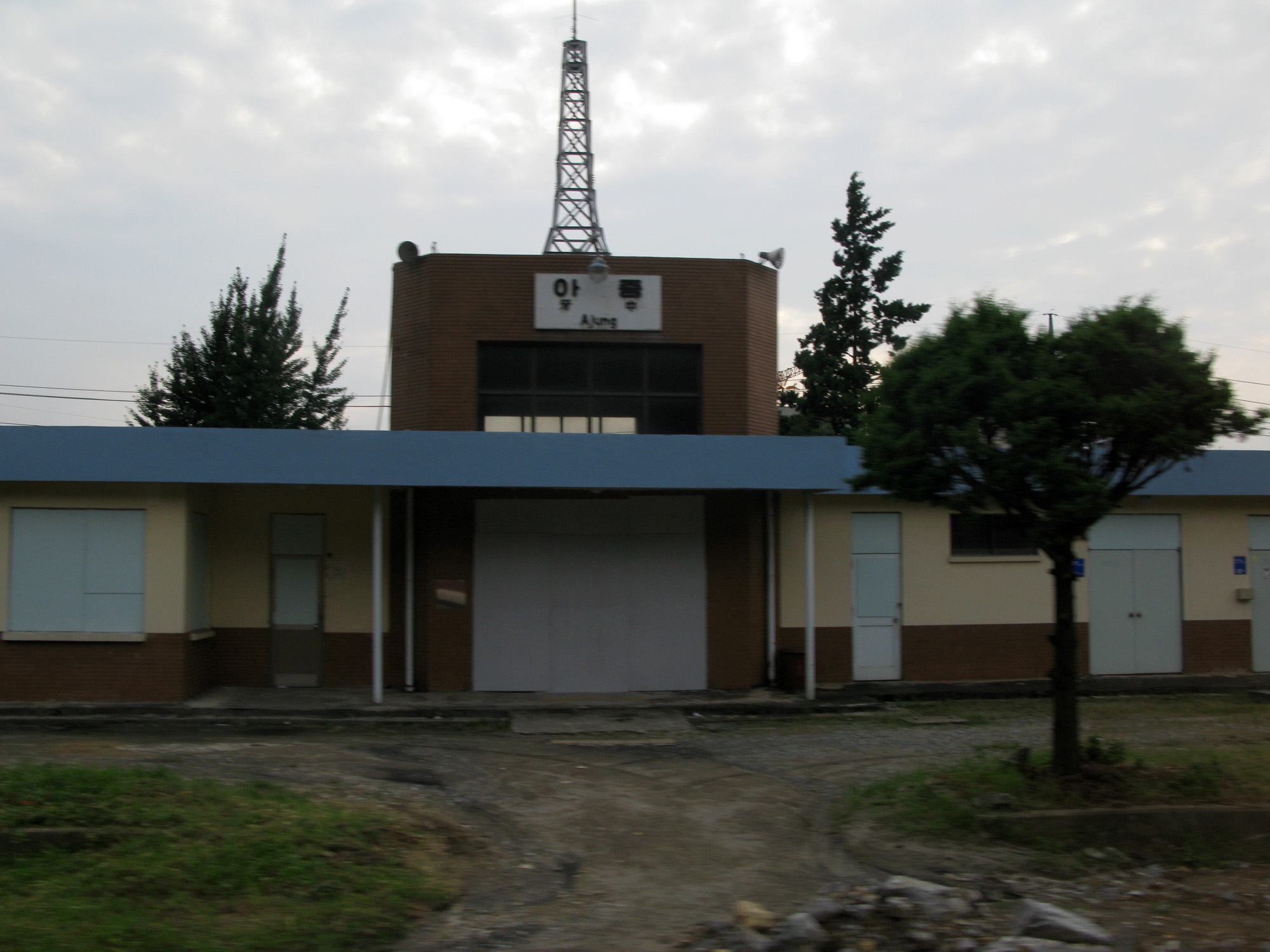 Jeolla Line Ajung Station